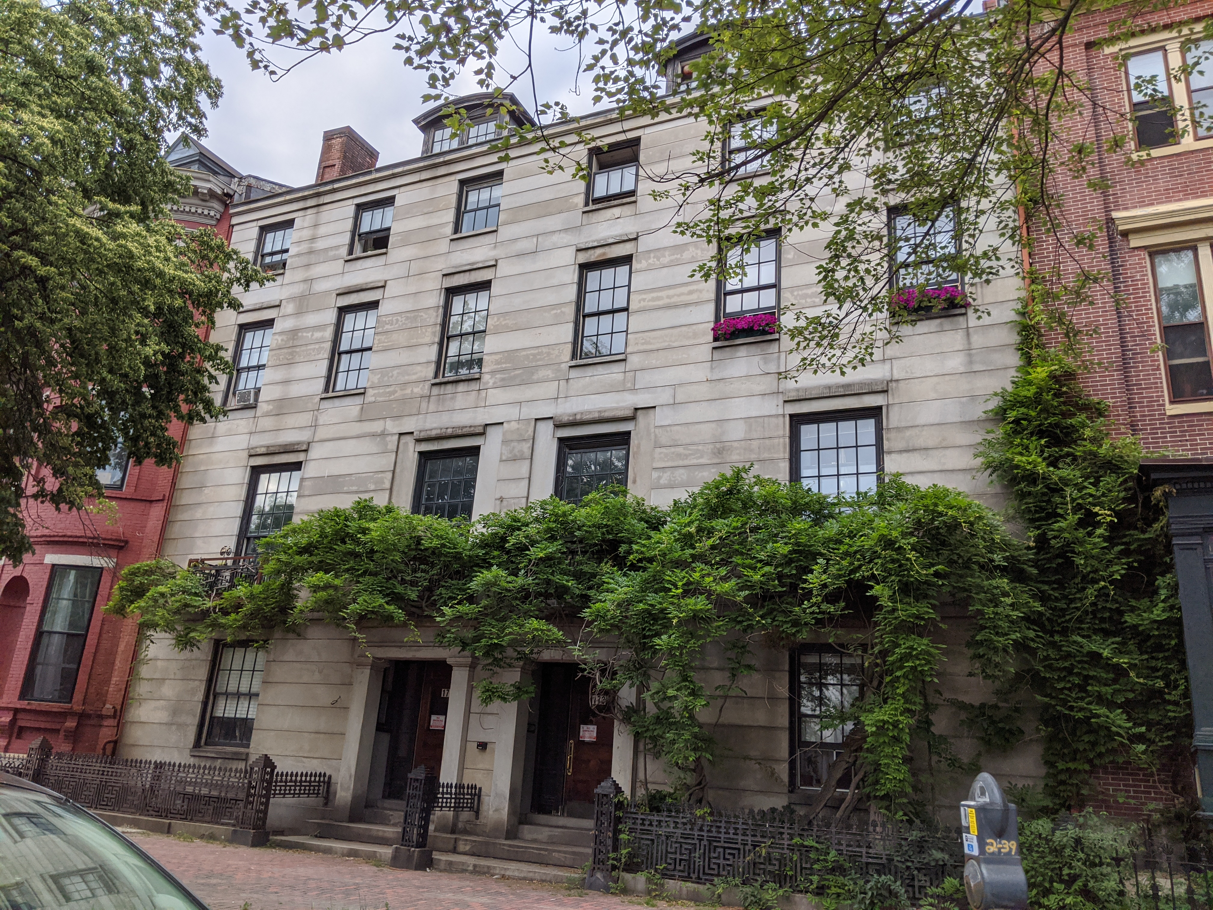 Twin homes at 173 (right) and 175 (left) State Street in Portland, Maine, USA, built by eccentric and influential writer and author John Neal (1793-1876) in 1836 of granite from the quarry he inherited 4 years earlier. Neal lived with his wife and children in the house on the right (number 173) and sold the house on the left (175) to a separate resident. Photo was taken with a Google Pixel phone on June 27, 2020.